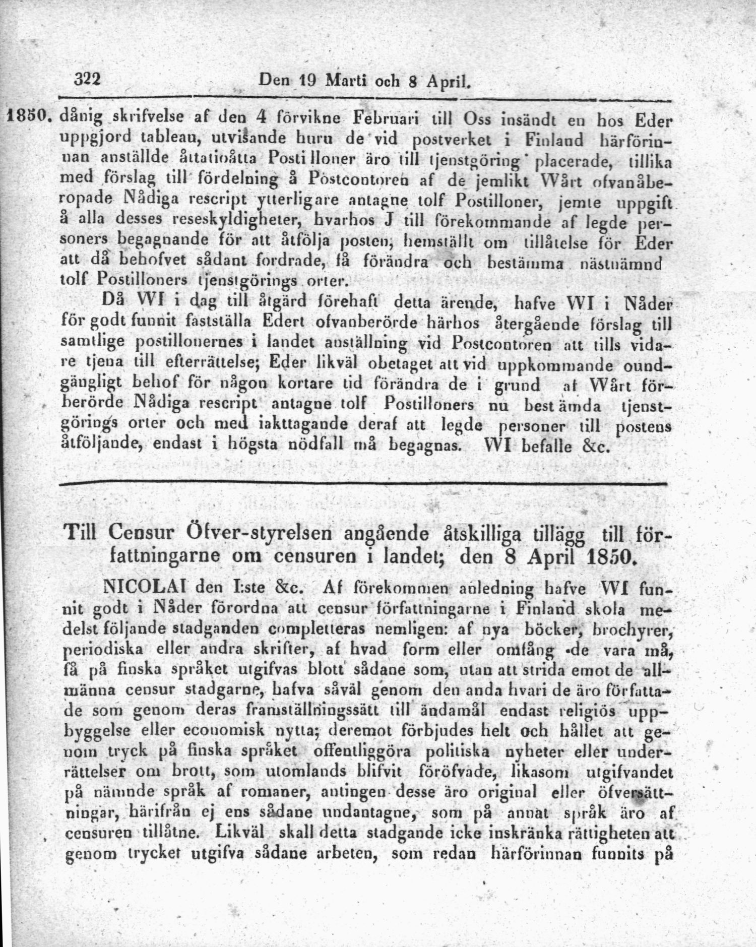 The first page of the so-called Language or Censorship Act, issued on 8 April 1850 in Grand Duchy of Finland. The Act was given only in Swedish language.